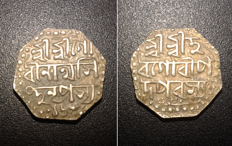 A silver coin from the era of Ahom king Gaurinath Singha (1780-1795 c.), Titabar, Assam, India অসমীয়া: আহোম স্বৰ্গদেৱ গৌৰীনাথ সিংহৰ (১৭৮০-১৭৯৫ খ্ৰী:) ৰূপৰ মোহৰ।